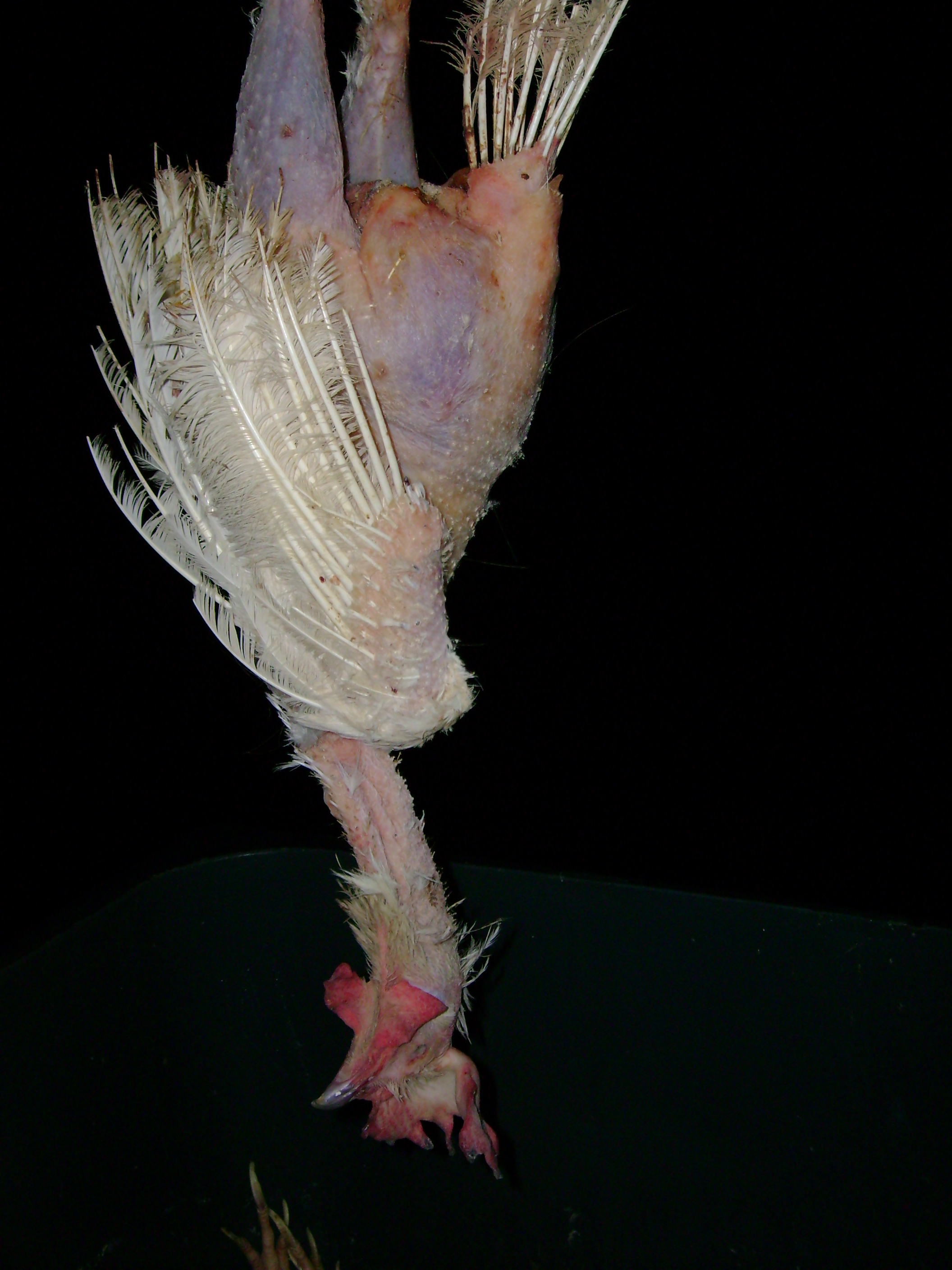 dead chicken